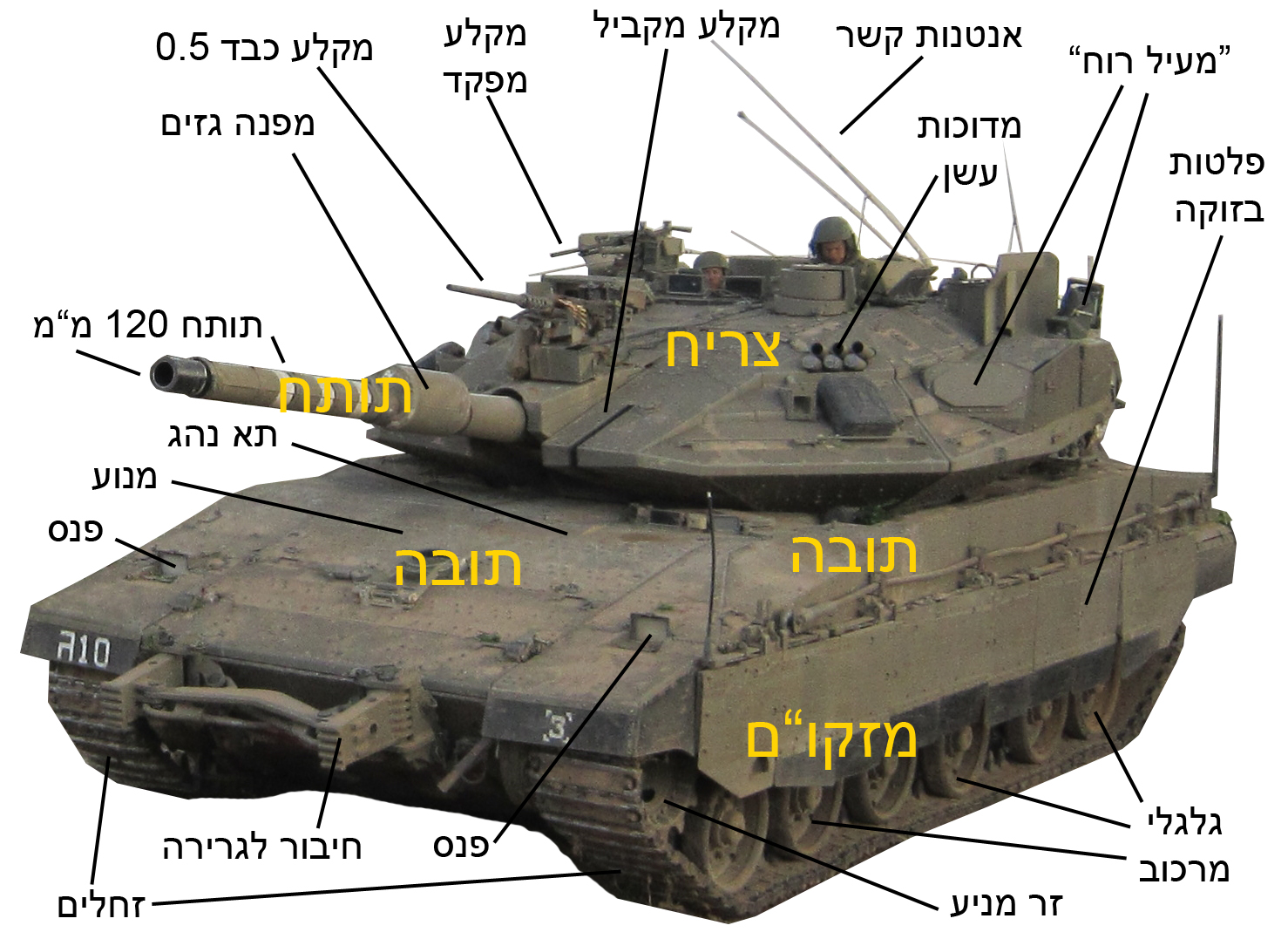 The tank structure explained on an IDF Merkava Mk 4m Windbreaker